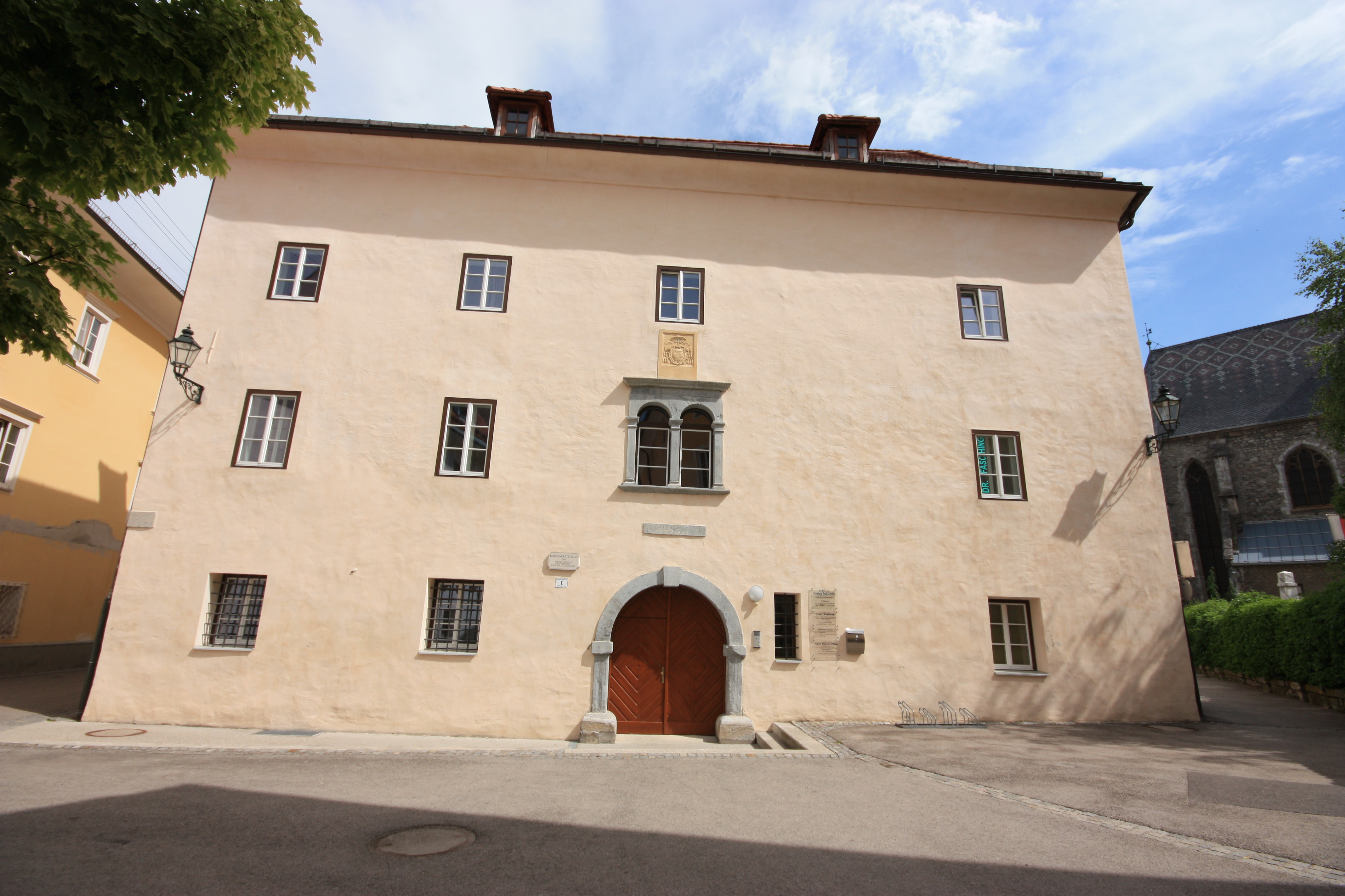 Canon-house (1568) in Friesach, Carinthia